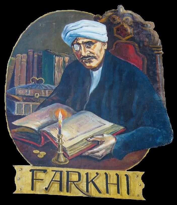 Wall painting of Haim Farhi, at the wall of Acre's Auditorium, Israel.